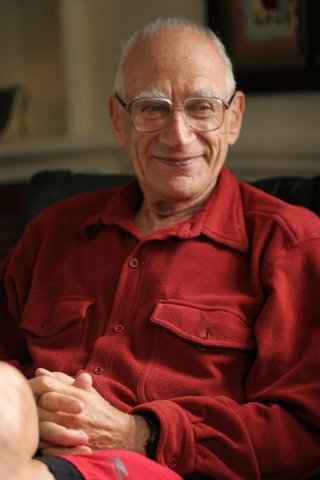 A picture of Daniel Kan at his home in Waban, Massachusetts.